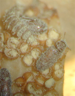 Pharaxonotha esperanzae, adults and larva on dissected Microcycas' microsporofils, Havana Cuba. Shot with digital camera, framed and reduced resolution version